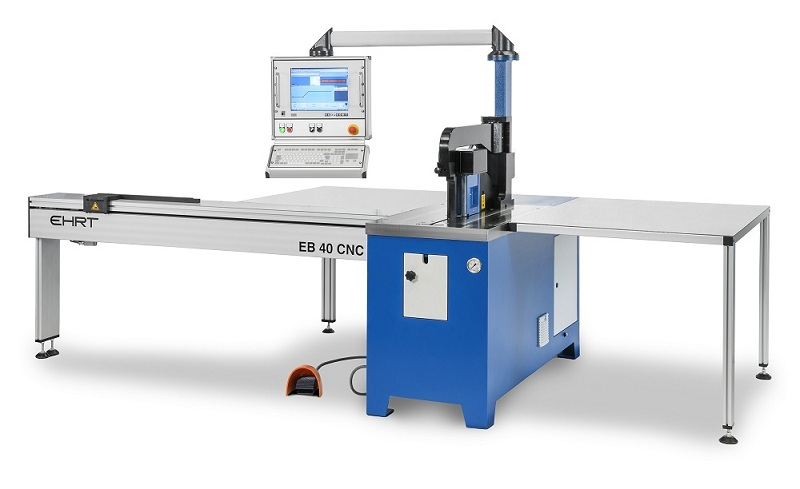 CNC bending machine (EHRT EB40CNC); The basic machine can be equipped with a variety of tools.